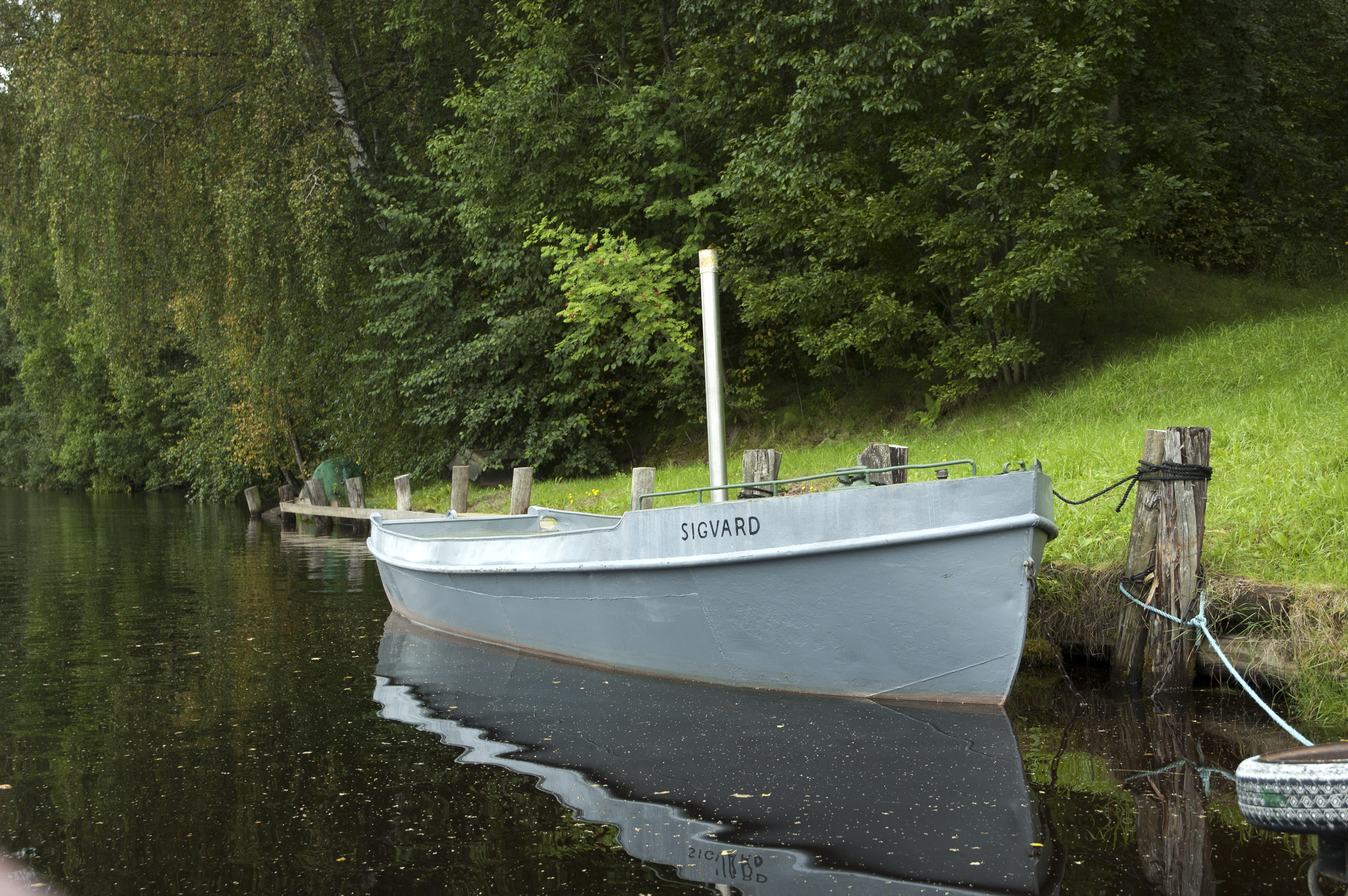 Sigvard, a historic boat used for timber rafting.